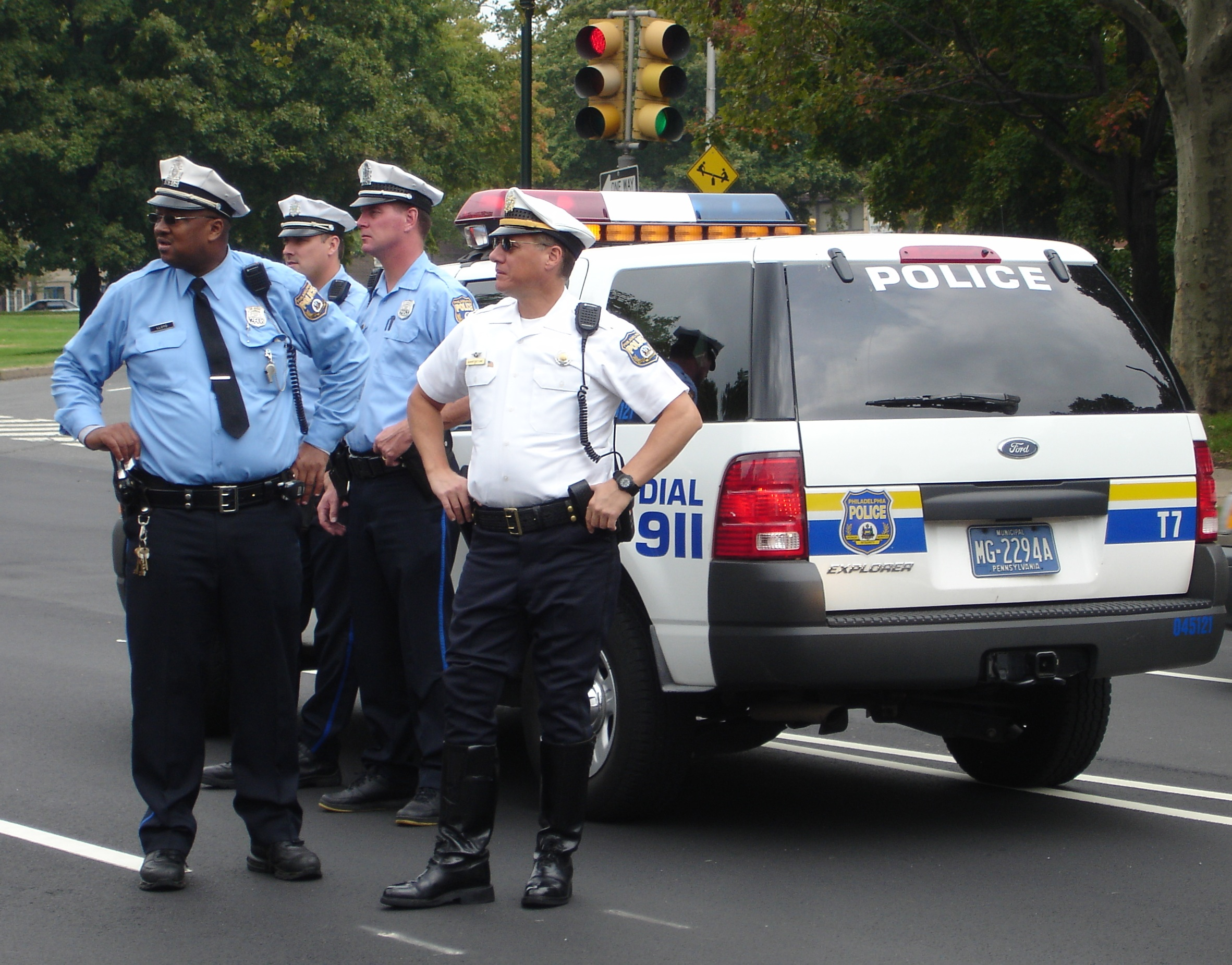 Three Philadelphia police officers and a Highway Patrol Lieutenant standing next to a police SUV.